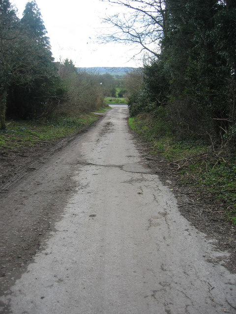 Totternhoe Knolls The road from the Knolls Car Park to Castle Hill Road